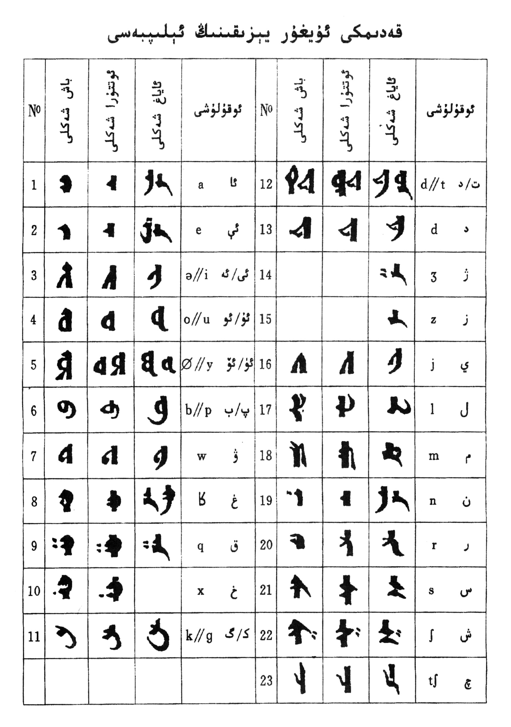 The Old Uyghur alphabet